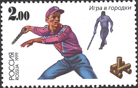 Russian stamps no 532 — Gorodki (kind of skittles)